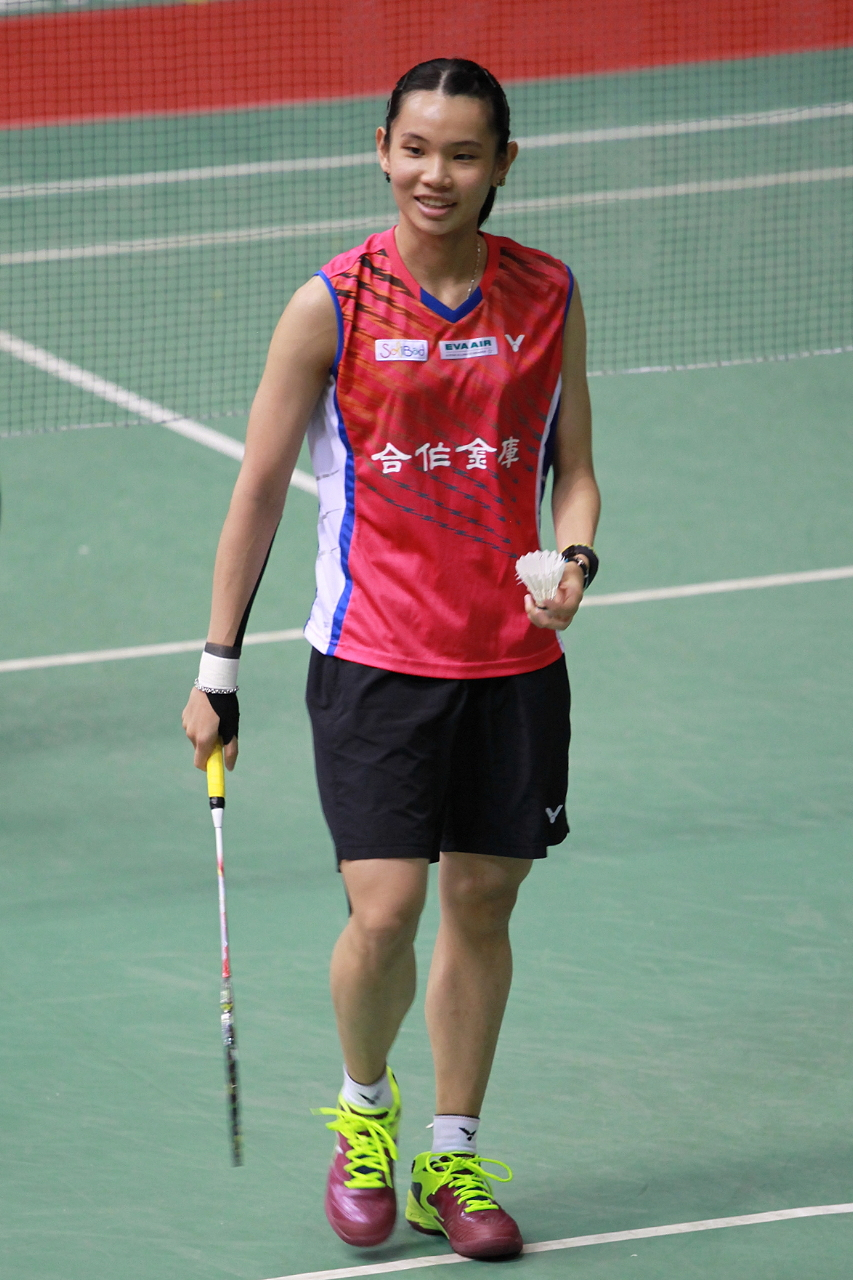 Yonex Chinese Taipei Open 2016 - Semifinal - Tai Tzu-ying vs Nitchaon Jindapol 01